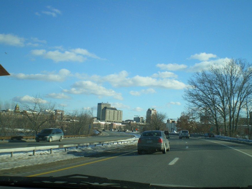 A view of the city of Manchester, New Hampshire when traveling southbound on I-293